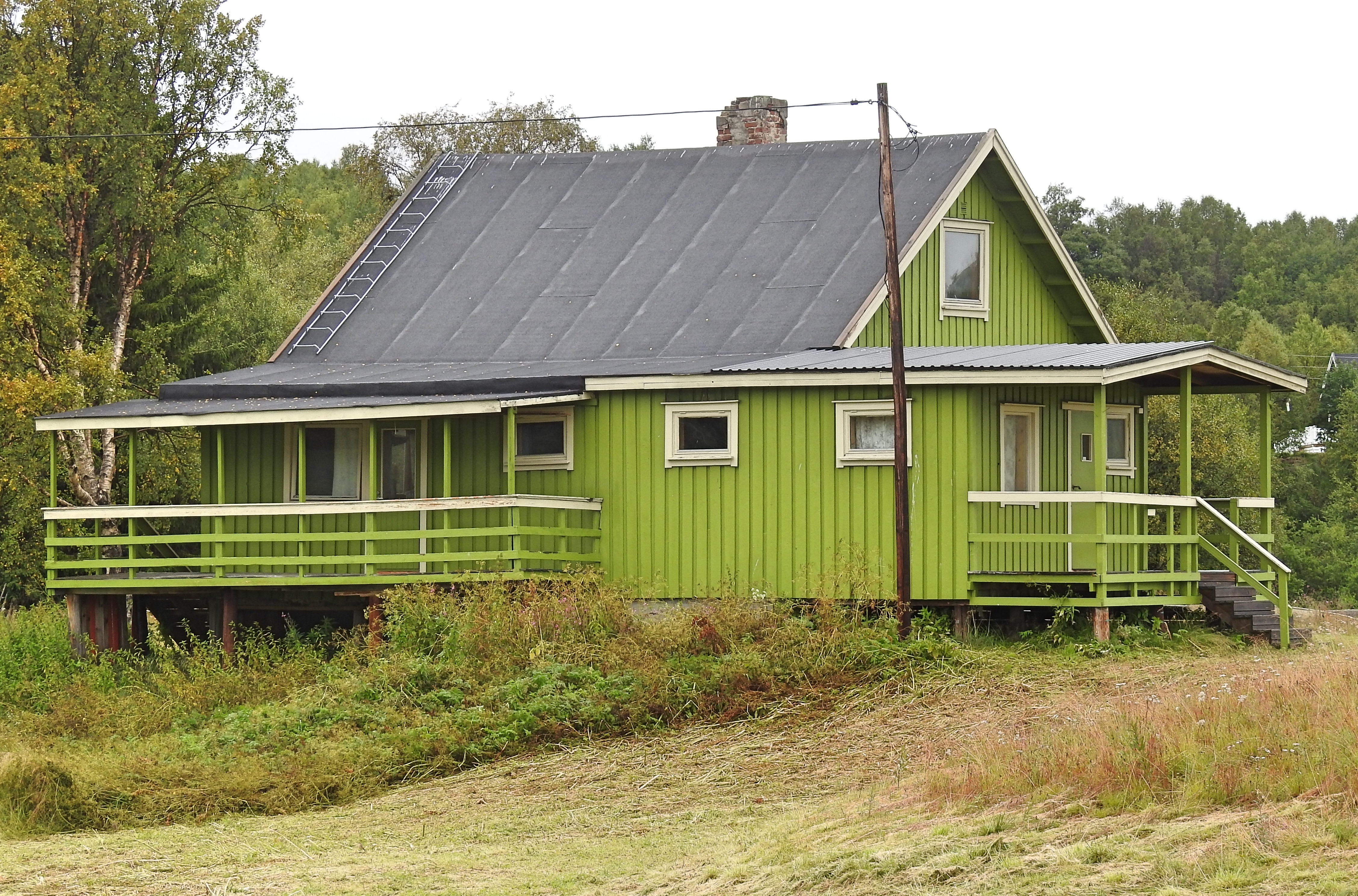 House in the protected area of Skoltebyen in Neiden (Municipality of Sør- Varanger/Finnmark/Norway)